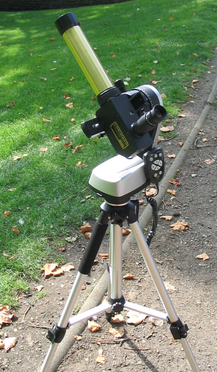 Personal Solar Telescope (PST) by Coronado (H-alpha telescope) on an altazimuth mount with GoTo (Liège (Belgium) - Retrouvailles-2010 - Société Astronomique de Liège (SAL)